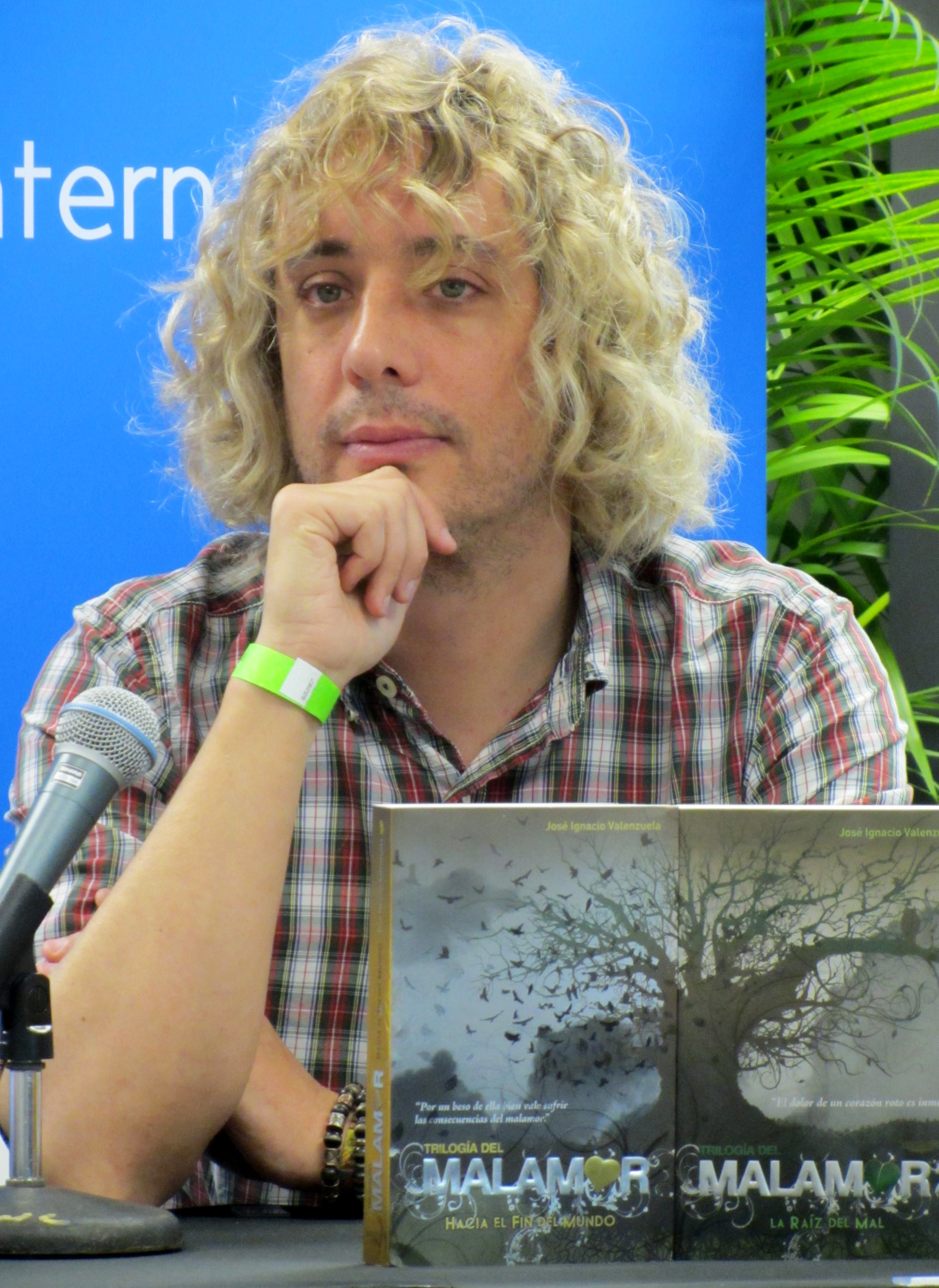 Chilean writer José Ignacio Valenzuela at the Miami Book Fair International 2014